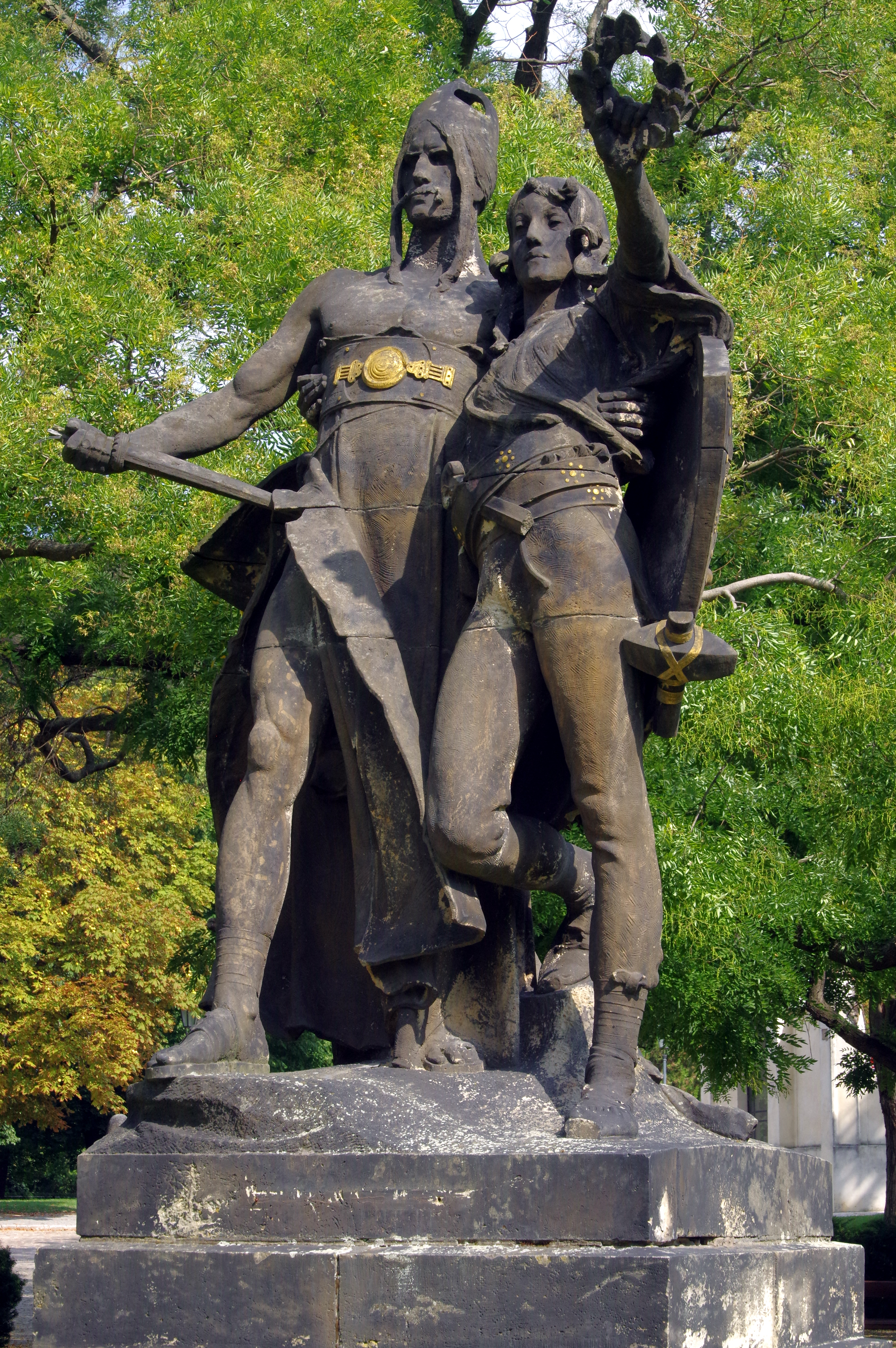 1.9.15 Vysehrad and VyseHratky